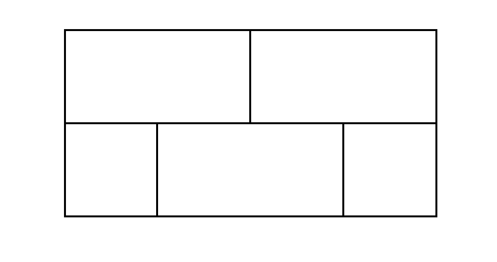 This is a picture of the Five room puzzle